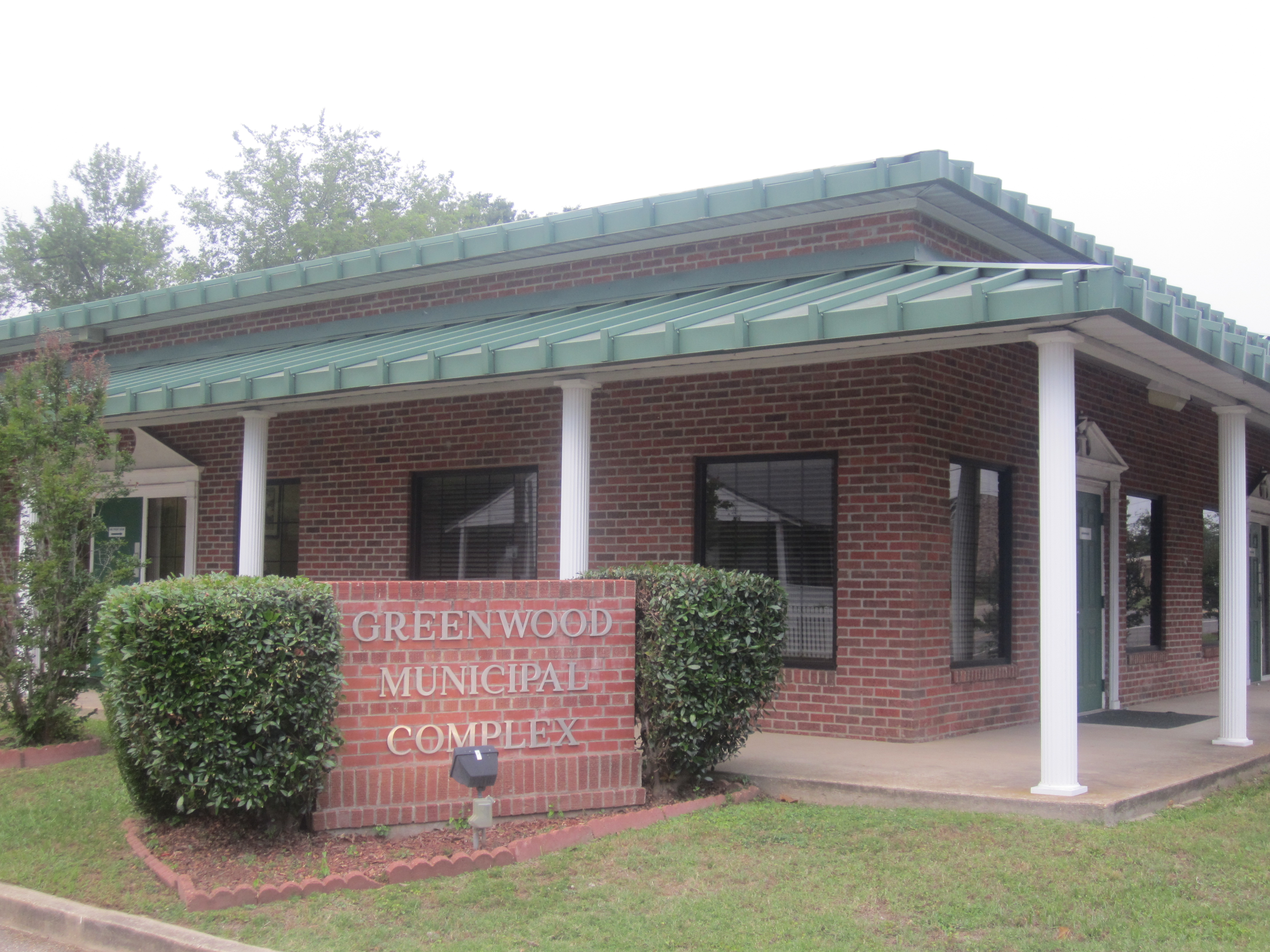 I took photo with Canon camera in Greenwood, LA.